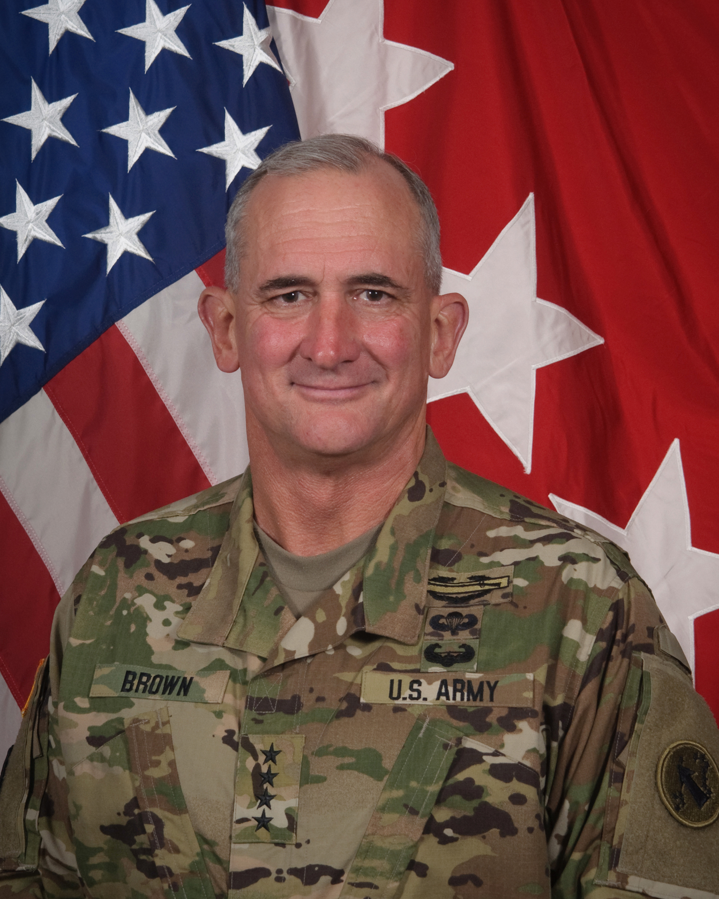 New commander, US Army Pacific